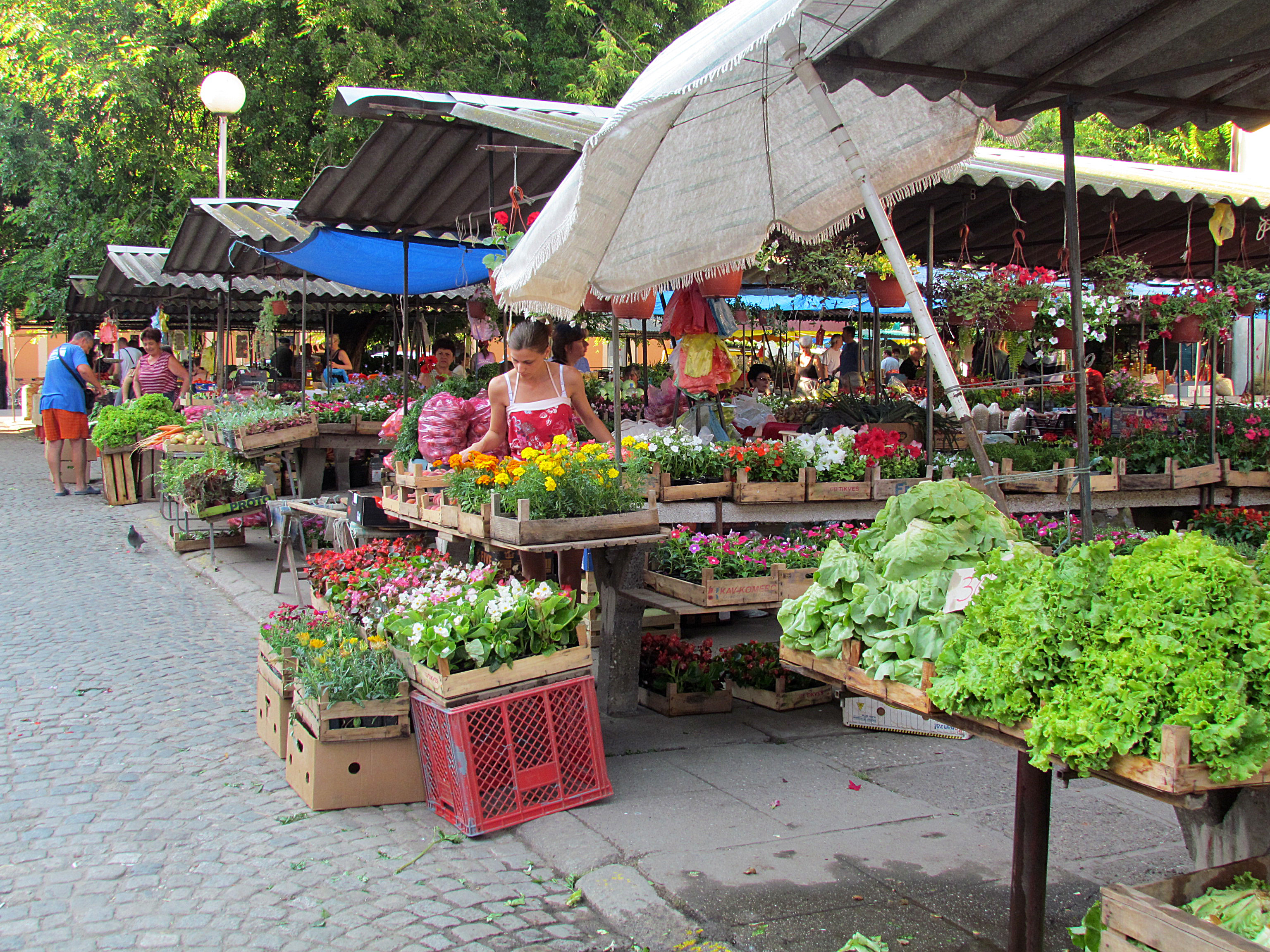 Farmers' market in Sombor, Serbia